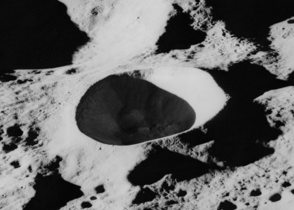 Oblique view of Kohlschütter V crater, northwest of Kohlschütter crater, facing north, on the far side of the moon. The west wall and floor are partially illuminated by reflected light from the east wall.